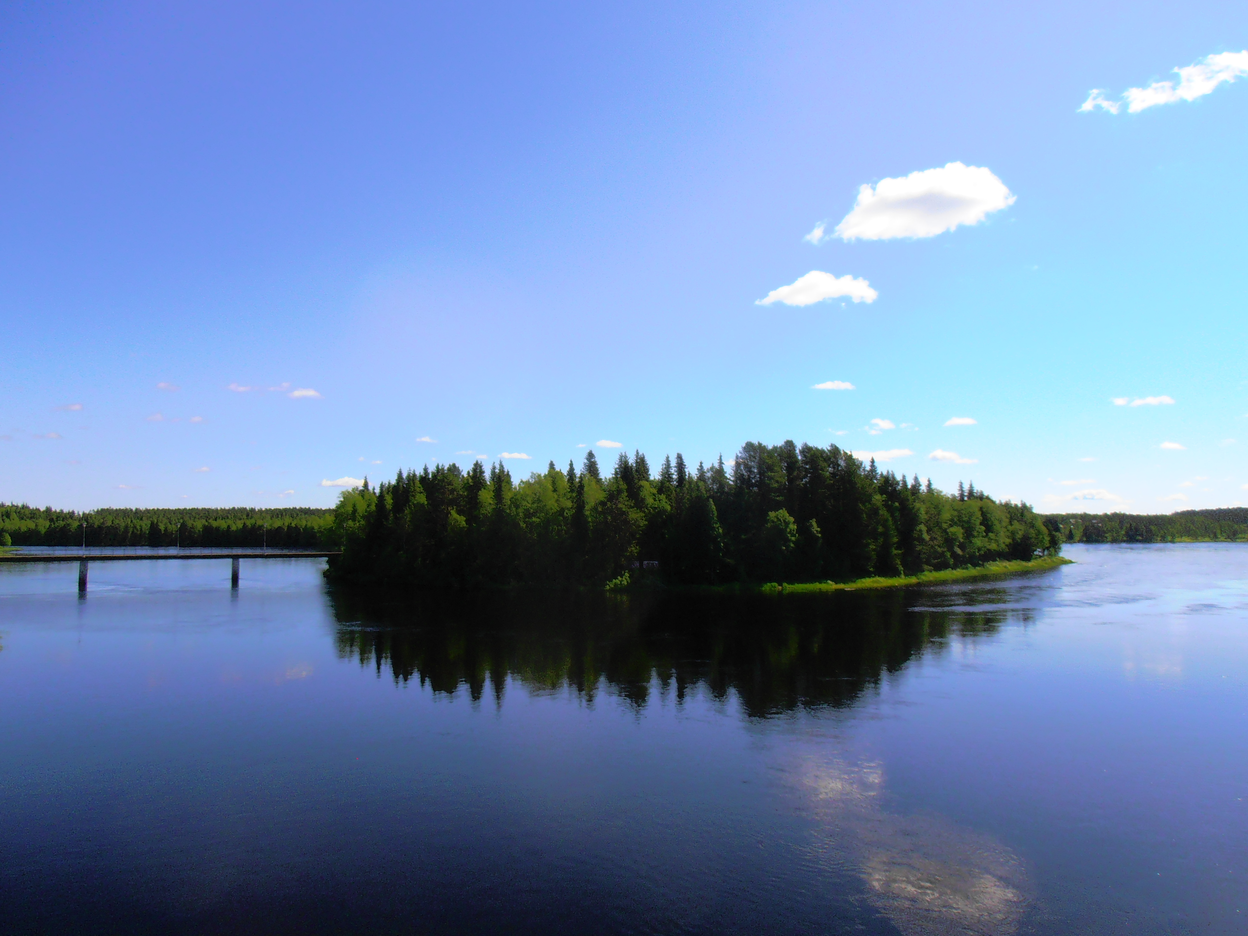 The Tärendö island, Tärendö